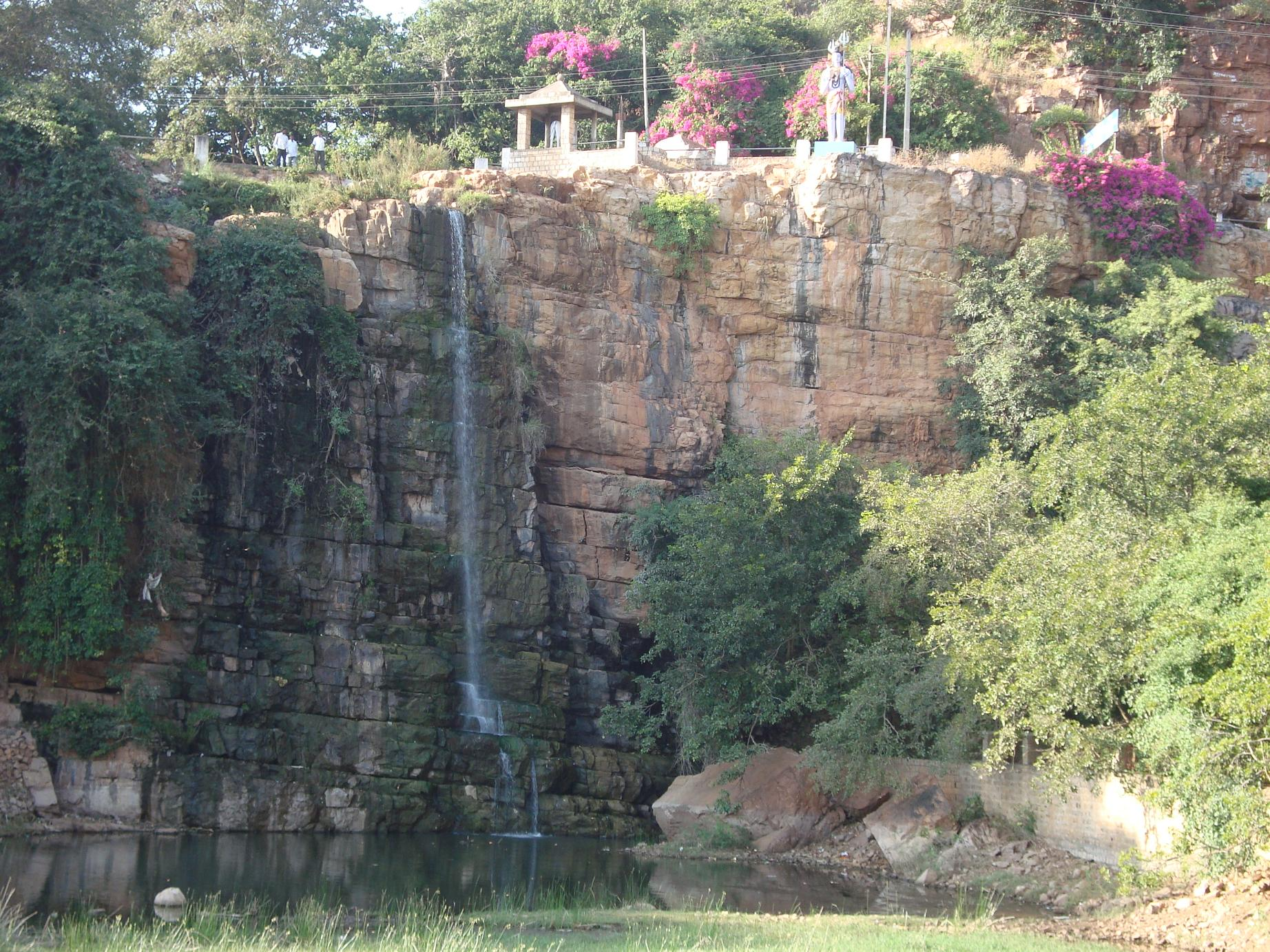 Parasgad Fort, near Savadatti Source and Author : Manjunath Doddamani, Gajendragad / Hubli, Karnataka(India)